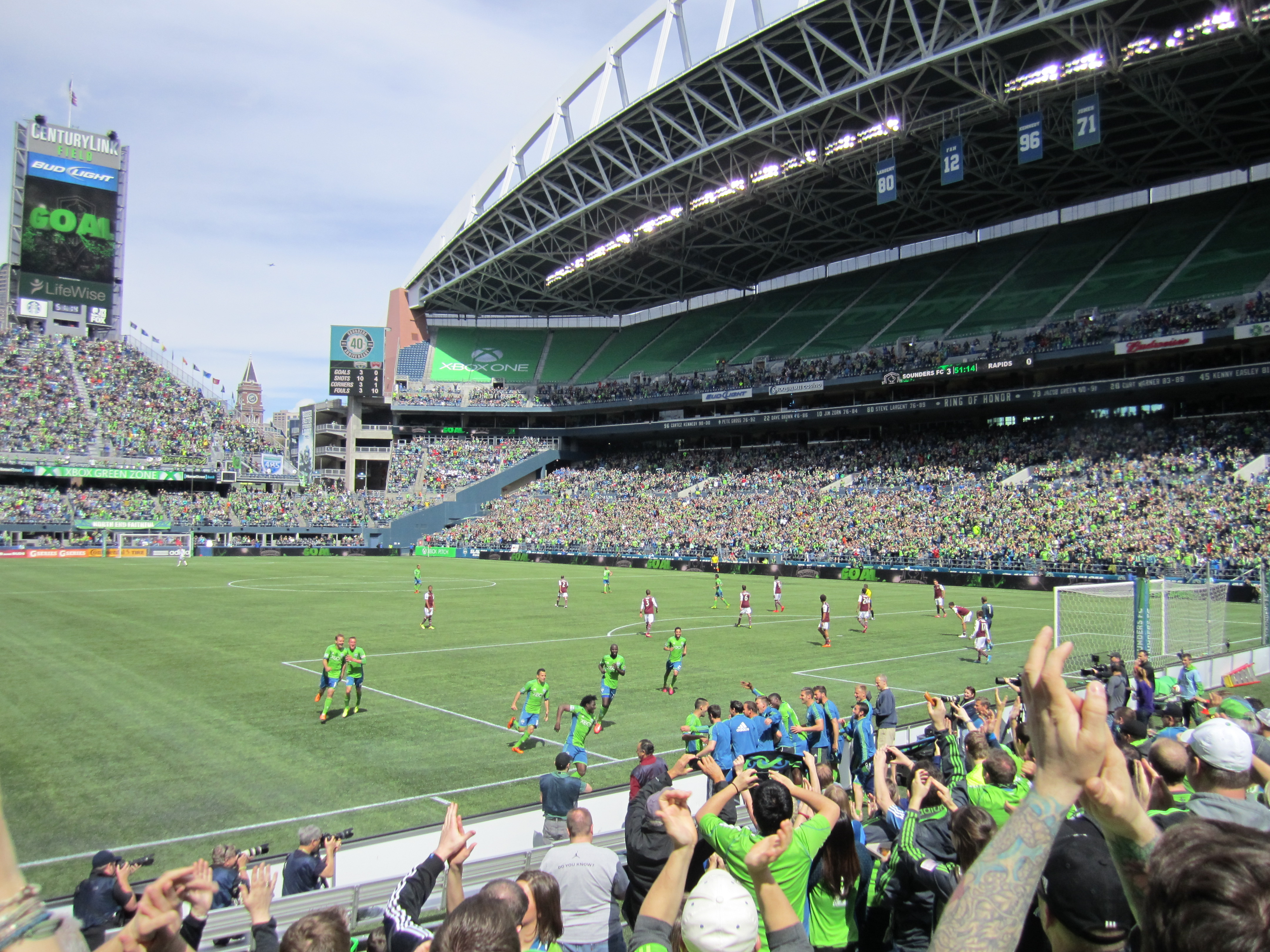 Seattle Sounders FC players celebrating the third goal in a 4–1 victory over the Colorado Rapids at CenturyLink Field, viewed from the "Brougham End" with the Emerald City Supporters group.